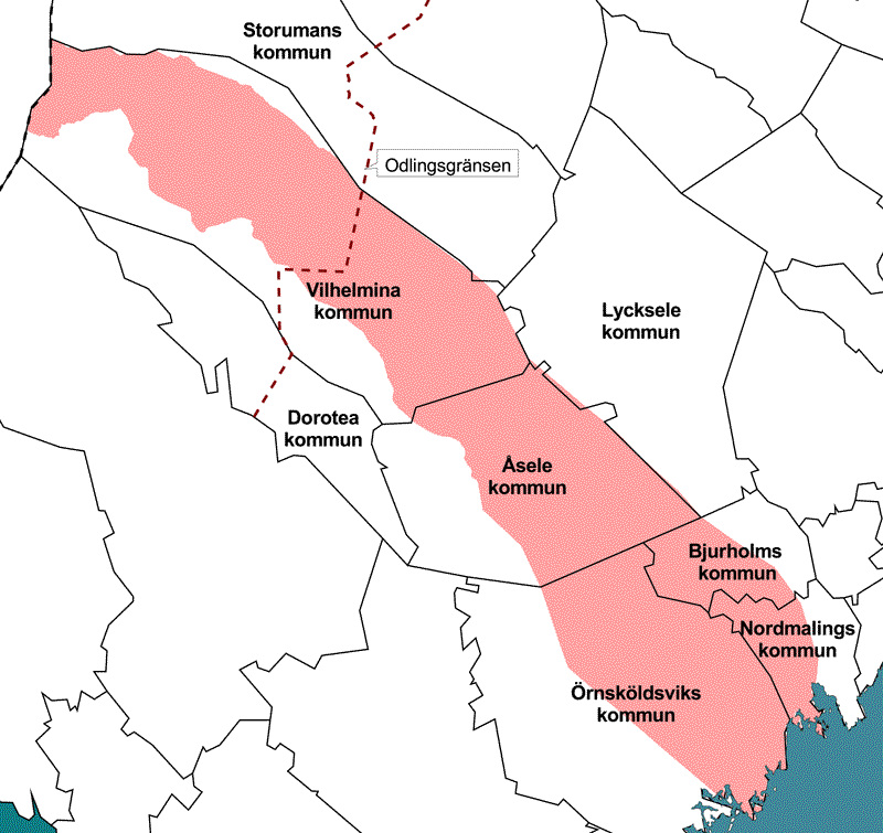 The area used by Vilhelmina norra sameby in Västerbottens län, Sweden. All of the area has not been formally decided.